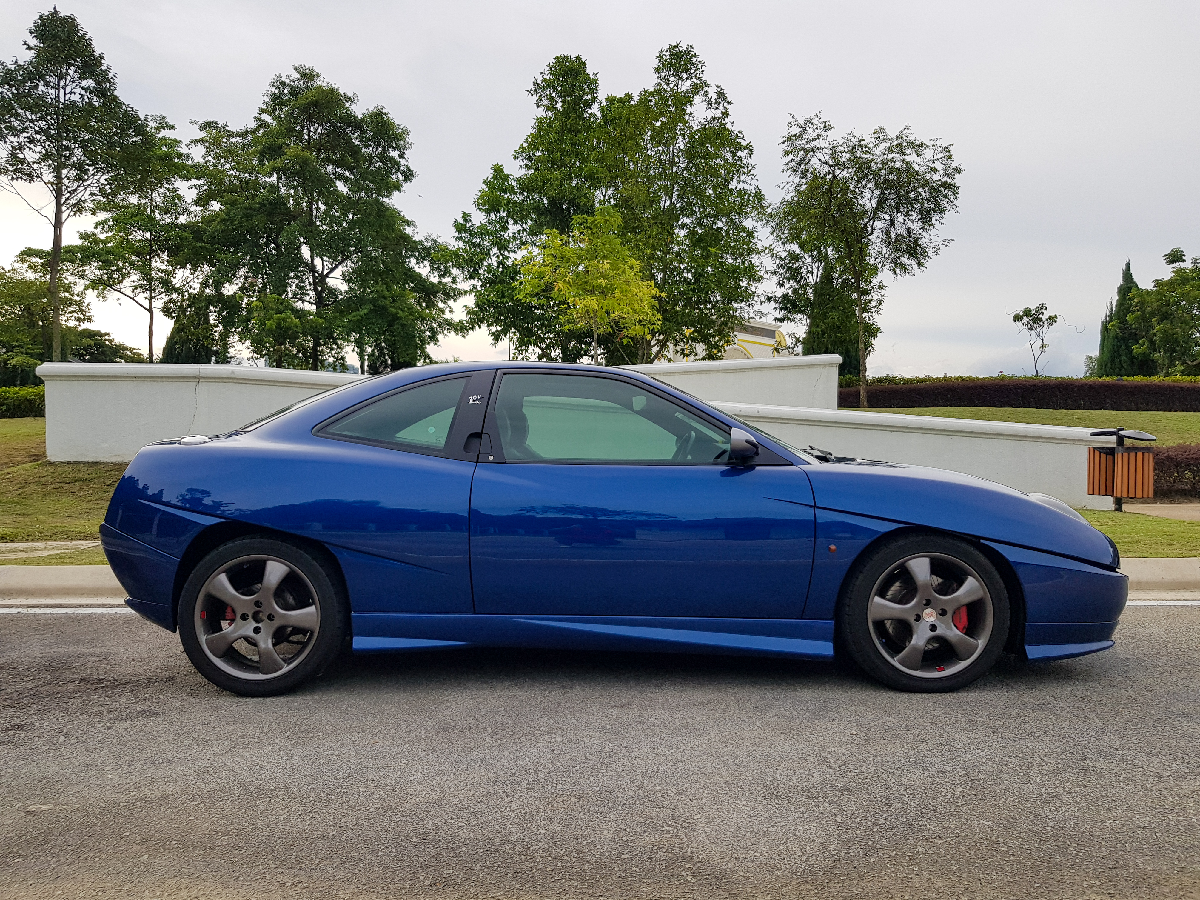 Side profile of the 20VT Plus variant. The pictured example was matched with 1000 Miglia period correct sports rims.